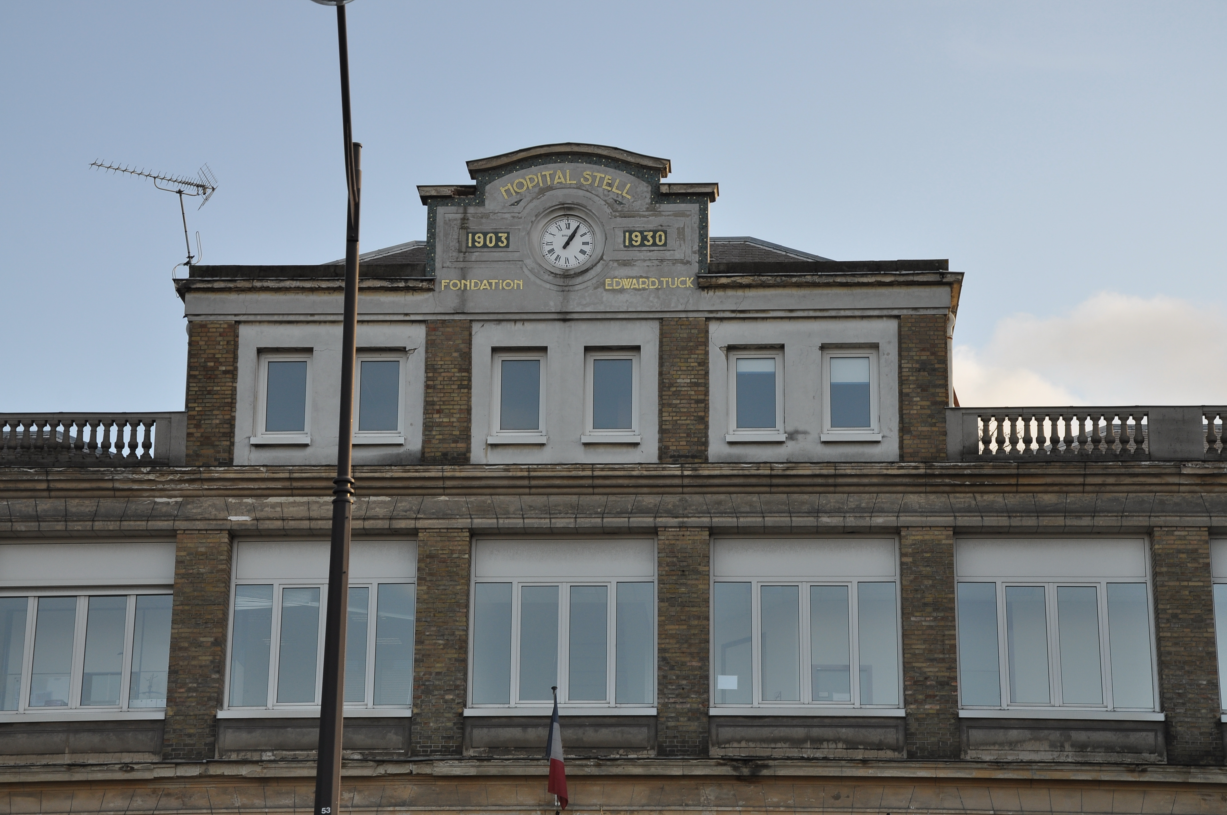 Stell hospital in Rueil-Malmaison, department of Hauts-de-Seine in France. The bulding is registred as cultural heritage.